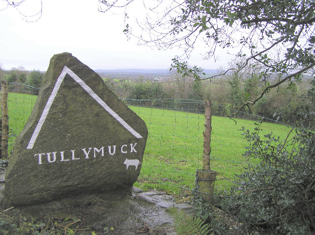 Tullymuck. A sign along the roadside denotes the adjacent townland.